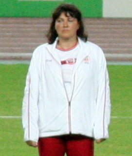 World Athletics Championships 2007 in Osaka - the participants in the women's discus throwing final: Joanna Wisniewska